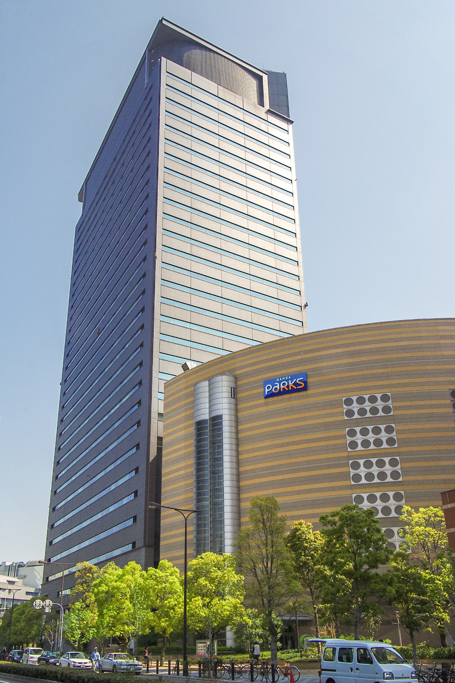 Photograph of Parks Tower, a part of Namba Parks, in Naniwa-ku, Osaka, Osaka Prefecture, Japan.